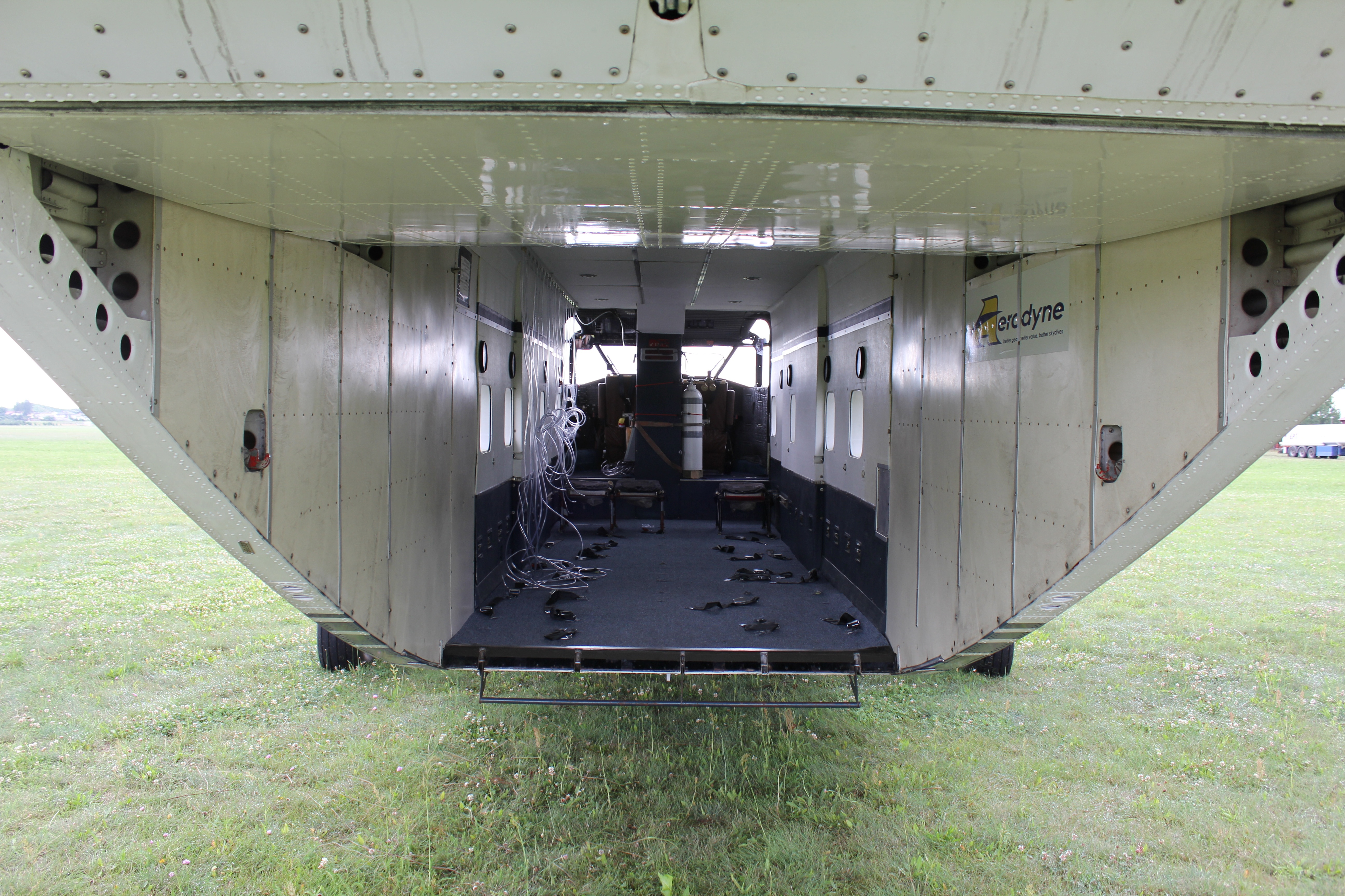 The inside of a Pink SkyVan equipped for skydiving